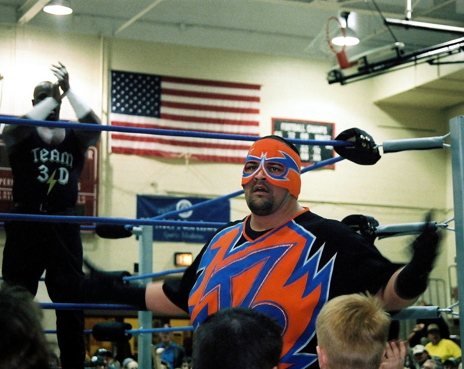 Former WWE Tag Team Champ Rosie address the crowd with D-Von Dudley in the background. Taken in Franklin, PA in April 2006. My batteries for my flash died so I pushed my ISO 800 film to 3200. The results are pretty grainy.